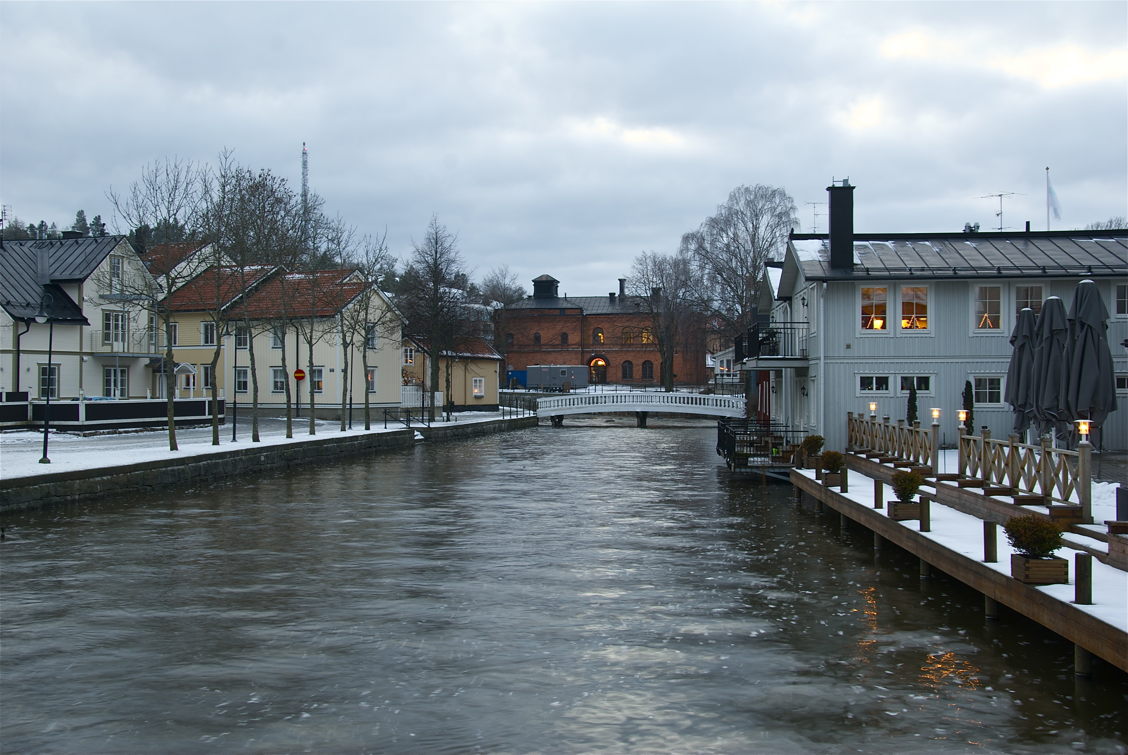 Norrtäljeån, nära utloppet i Norrtäljeviken.